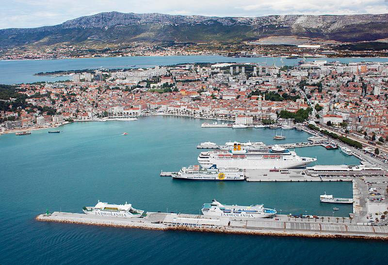 Port of Split from the airplane.